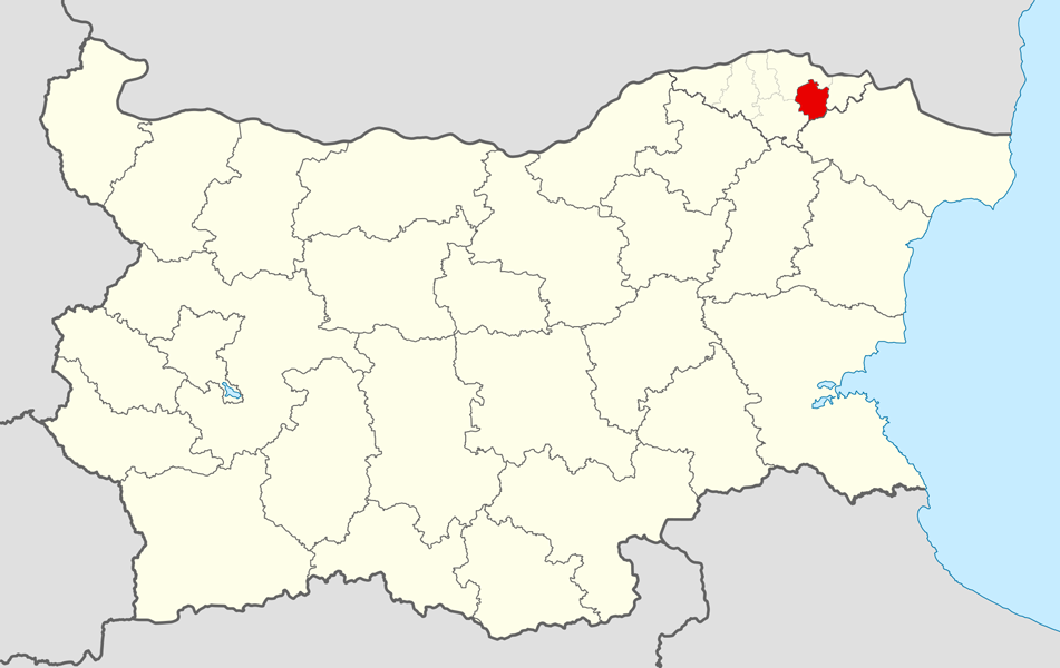 Location map of Alfatar Municipality within Bulgaria and Silistra Province. Equirectangular projection, N/S stretching 130 %. Geographic limits of the map: N: 44.4° N S: 41.1° N W: 22.1° E E: 28.9° E